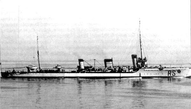 RN Cesare Rossarol, classified as scout cruiser by italian Regia Marina, formerly the destroyer SMS B 97.